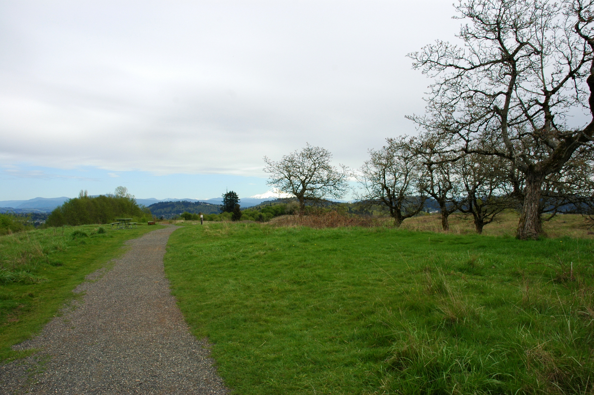 Powell Butte Nature Park in Portland, Oregon, United States. Mount Hood is visible in the distance.